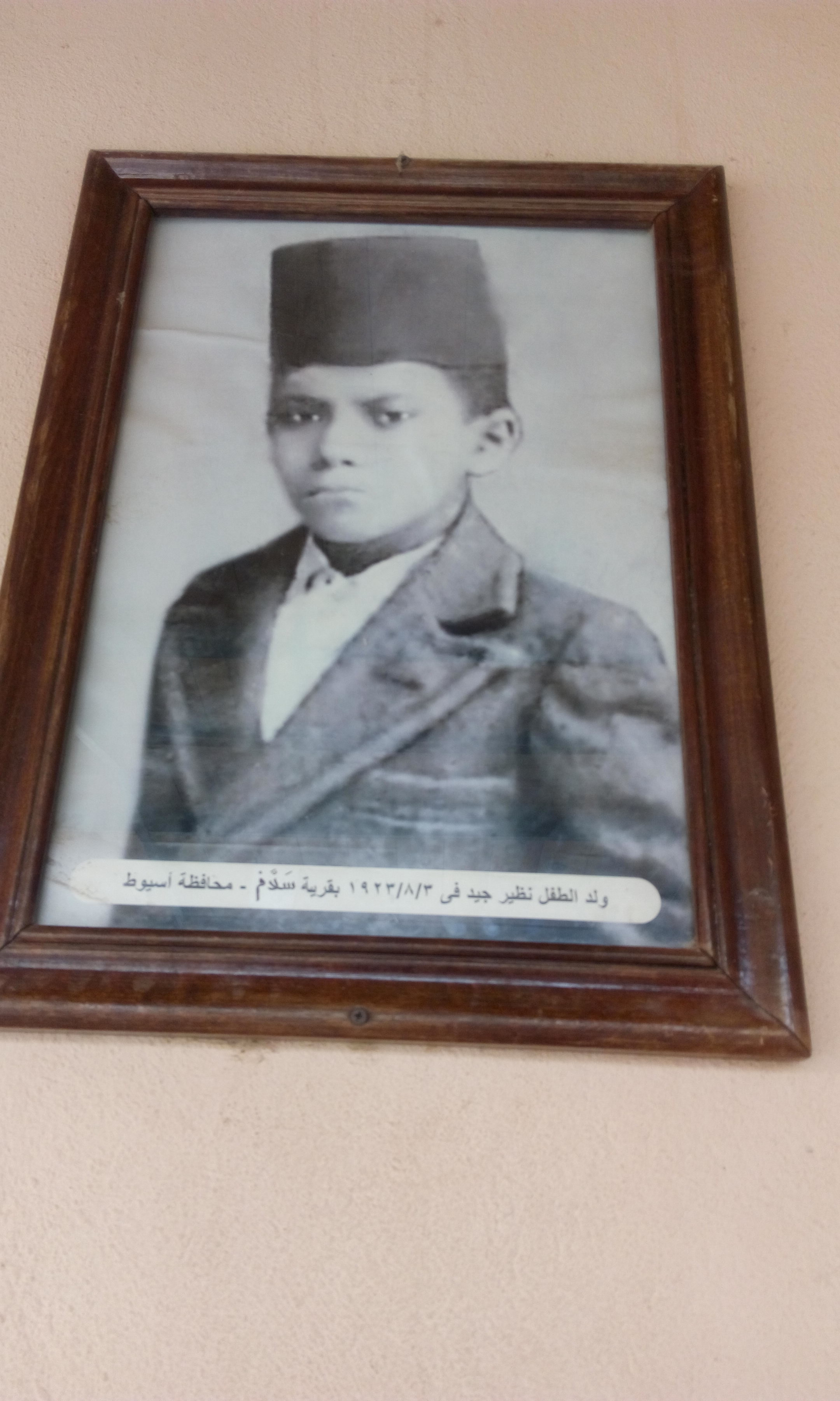 Pope Shenouda III shrine